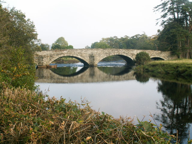 Llandderfel. The B4401 crosses the river Dee near Llandderfel.